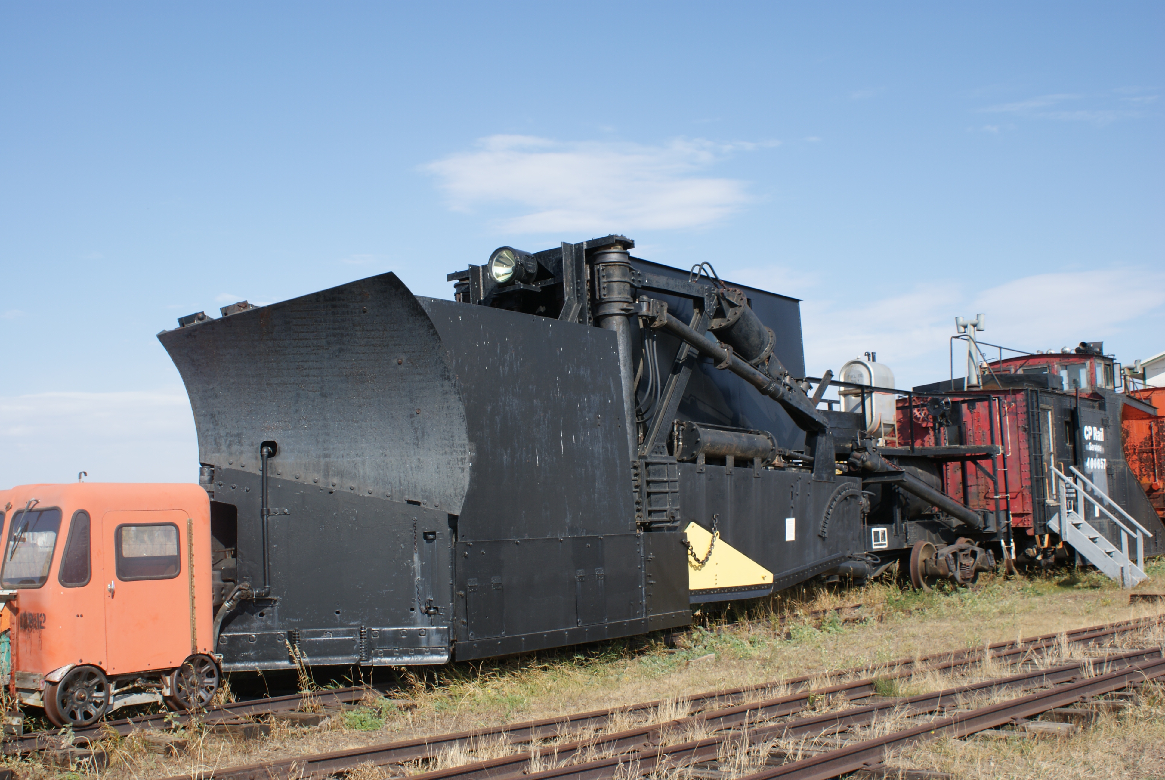 A Jordan Spreader which spread ballast, acts as snow plough, clean and dig ditches as well as trim embankments. This Jordan Spreader is preserved at the Saskatchewan Railway Museum. It had been used on the CPR line south of Moose Jaw.